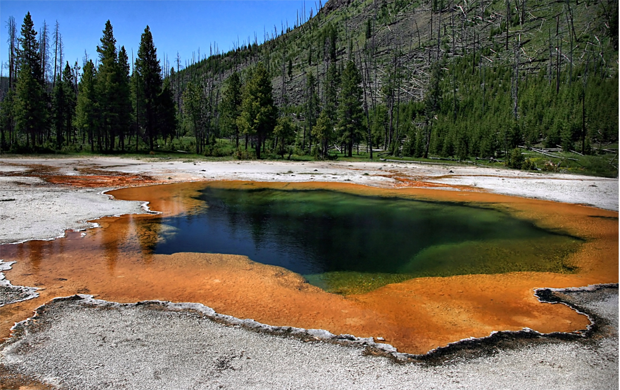 Emerald Pool in Yellowstone National Park